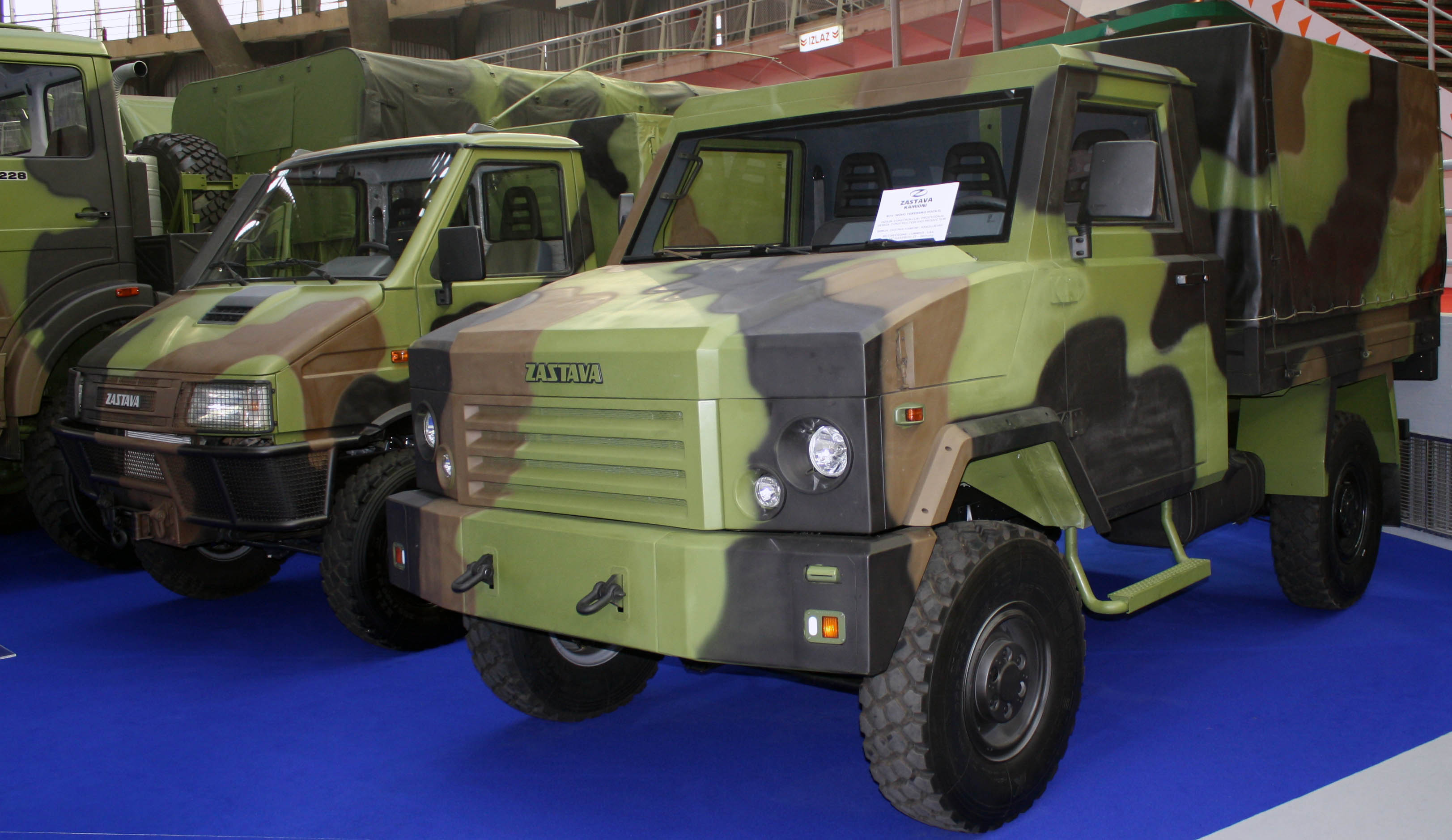 New Zastava 40.10H military 4x4 light truck on display at "Partner 2011" military fair.